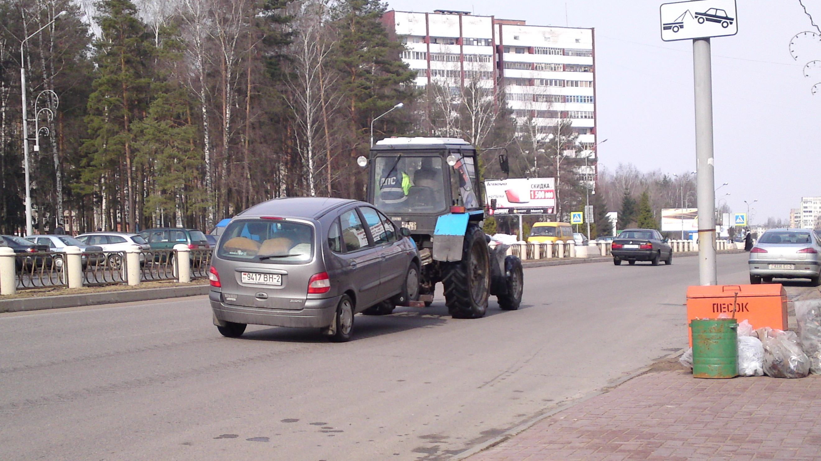 Evacuation of Renault Scenic I with a tractor Belarus in Novopolotsk (Belarus)